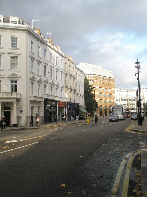 Junction of Lupus Street and St George's Square